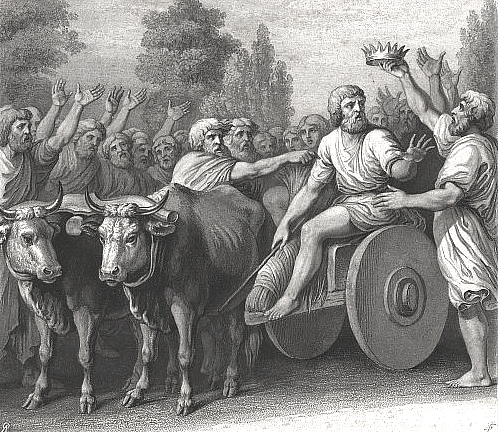 Electio of Piast